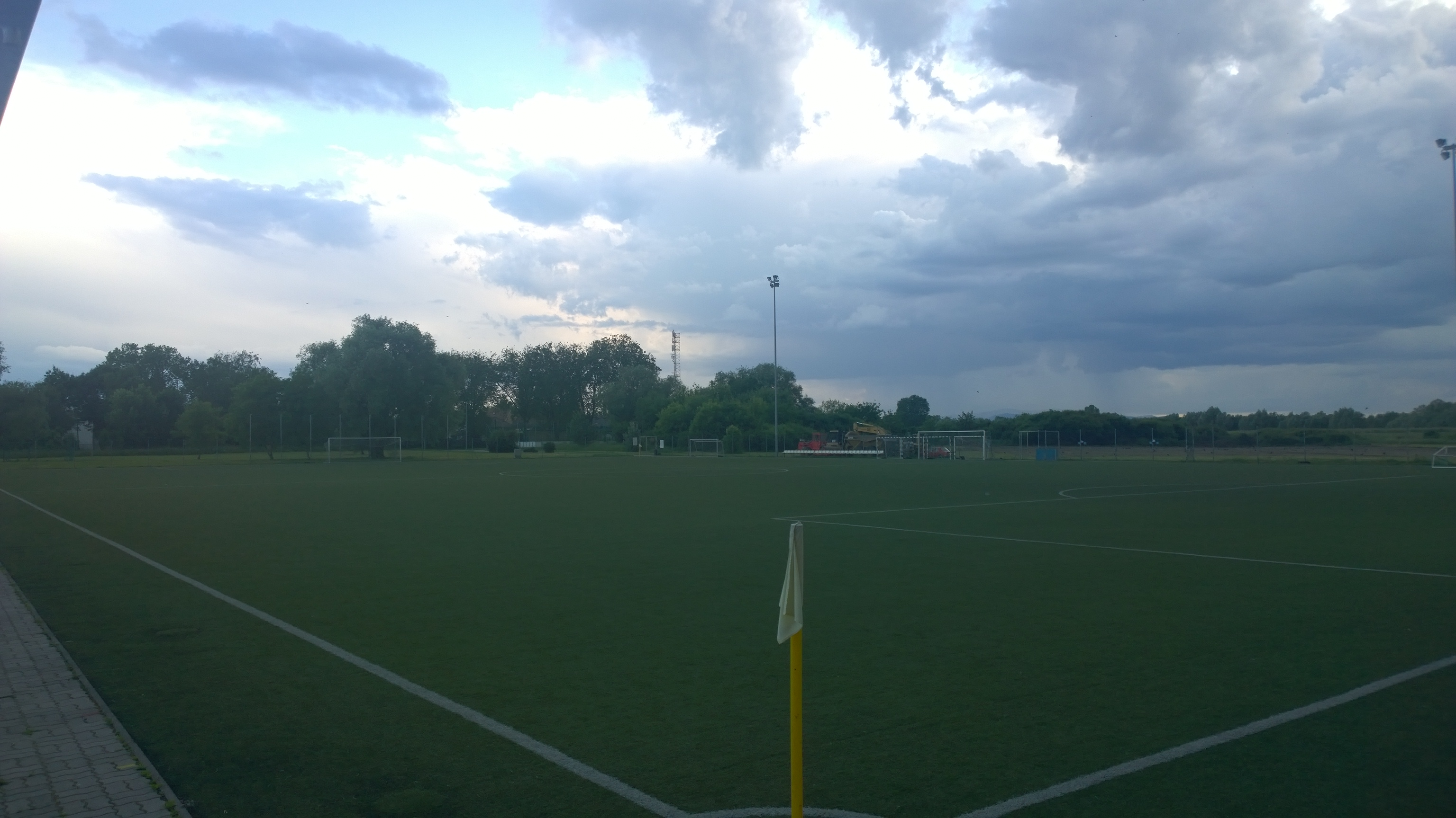 Artificial turf field in Balassagyarmat